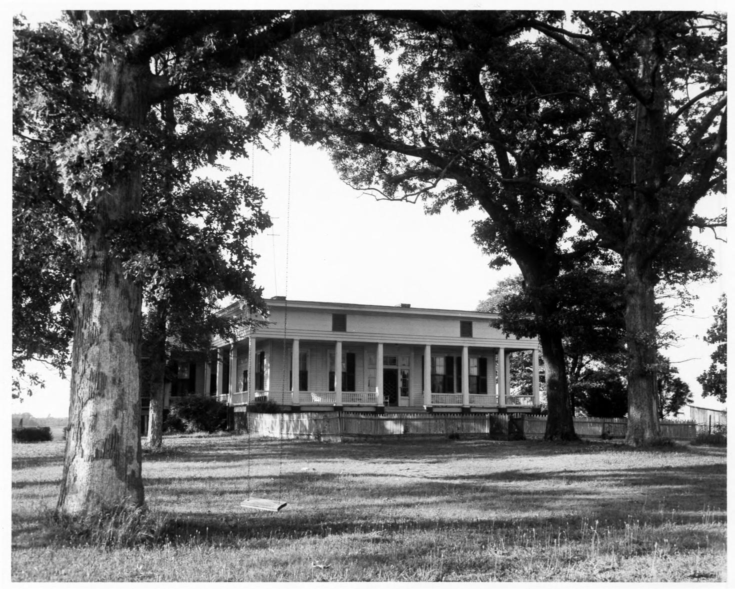 Jabez Lamar Monroe Curry House, also called the Smelley-Burt home, in Talladega County, Alabama.